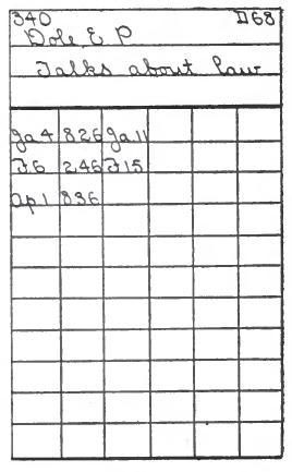 Illustration in A Library Primer